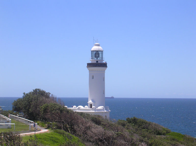 Richard De Zwart, Own Photo taken January 2007. Please do not use on other sites without acknowledging that it was taken by me - please also let me know you are using the picture by emailing me at